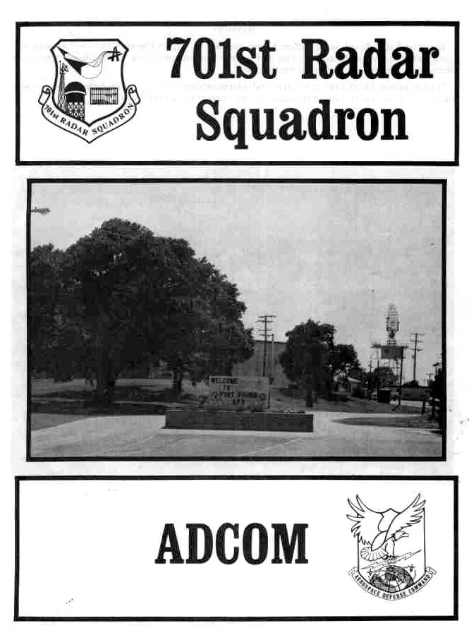 Cover of official Welcome Pamphlet of the 701st Radar Squadron, Fort Fisher AFS NC